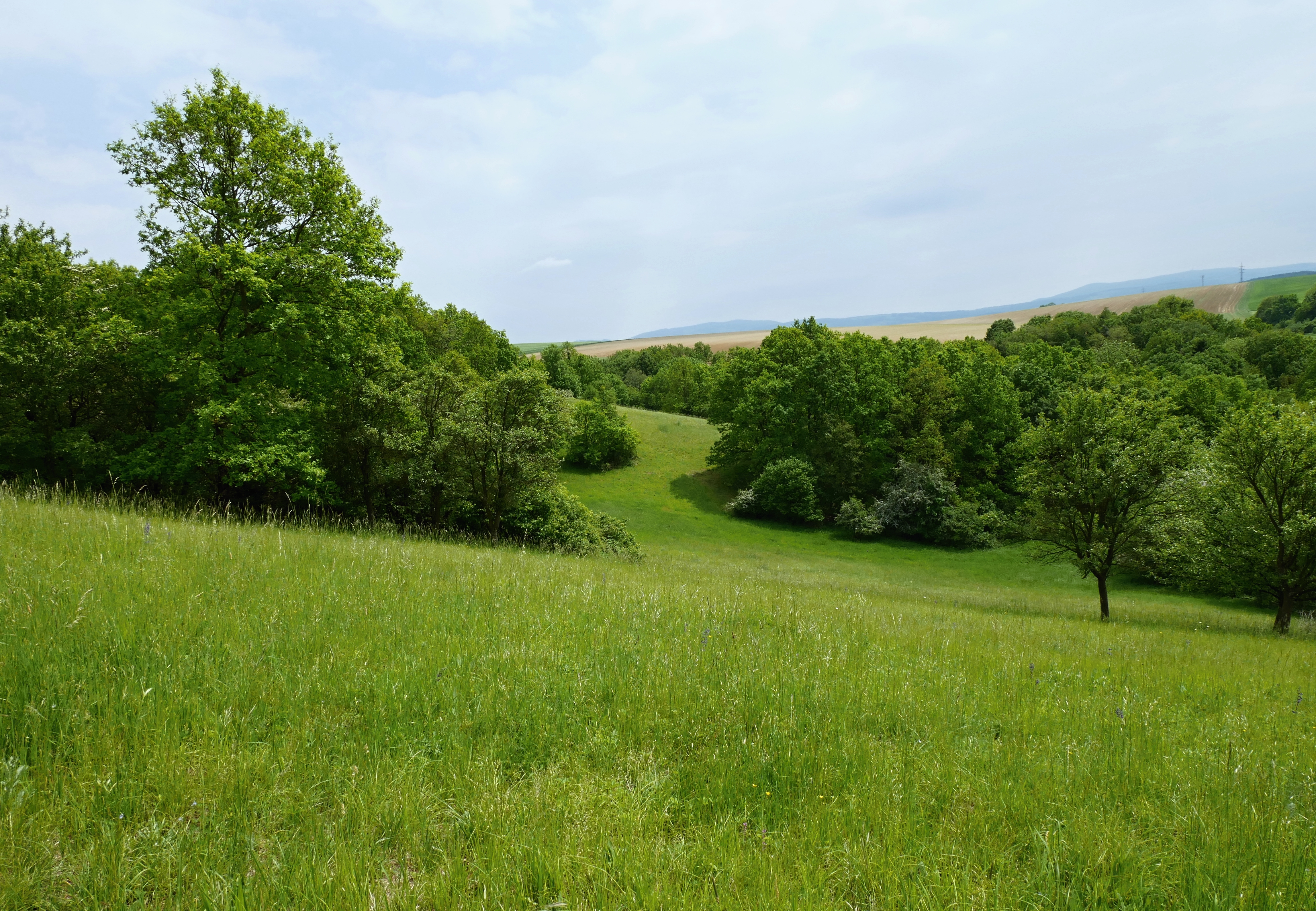 Rovná hora, nature reserve in Uherské Hradiště District, Czech Republic. Project: Chráněná území.